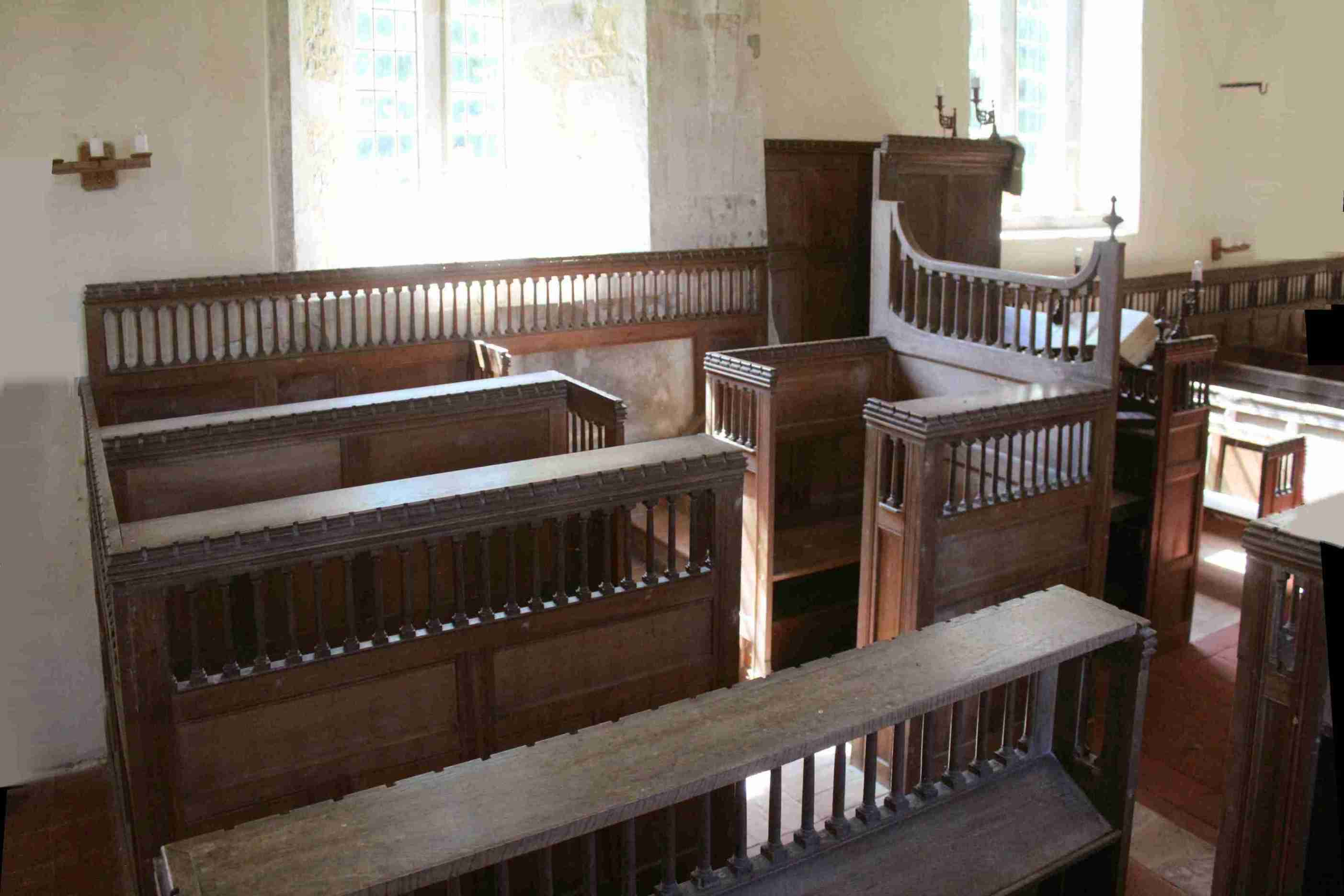 Stratford Tony - small box pews at the east end of St Marys church